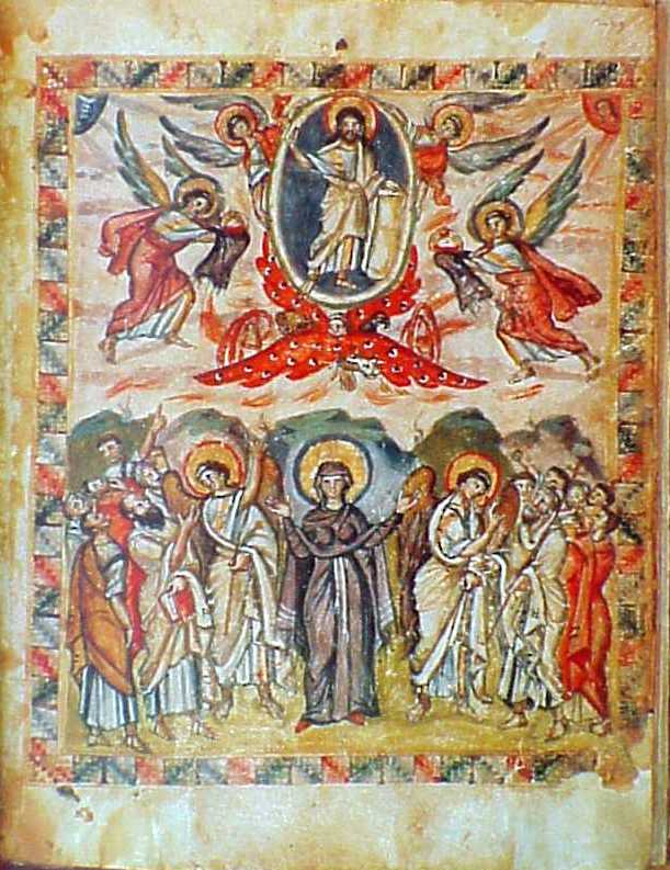 Folio 13v of the Rabula Gospels (Mesopotamia, 6th century AD)